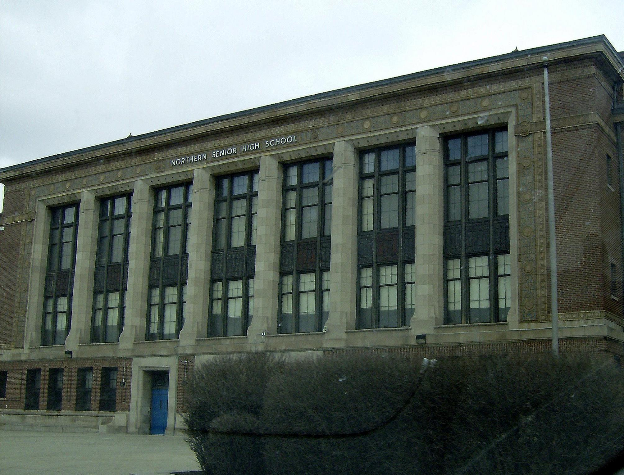 Northern High School (now Detroit International Academy for Young Women)